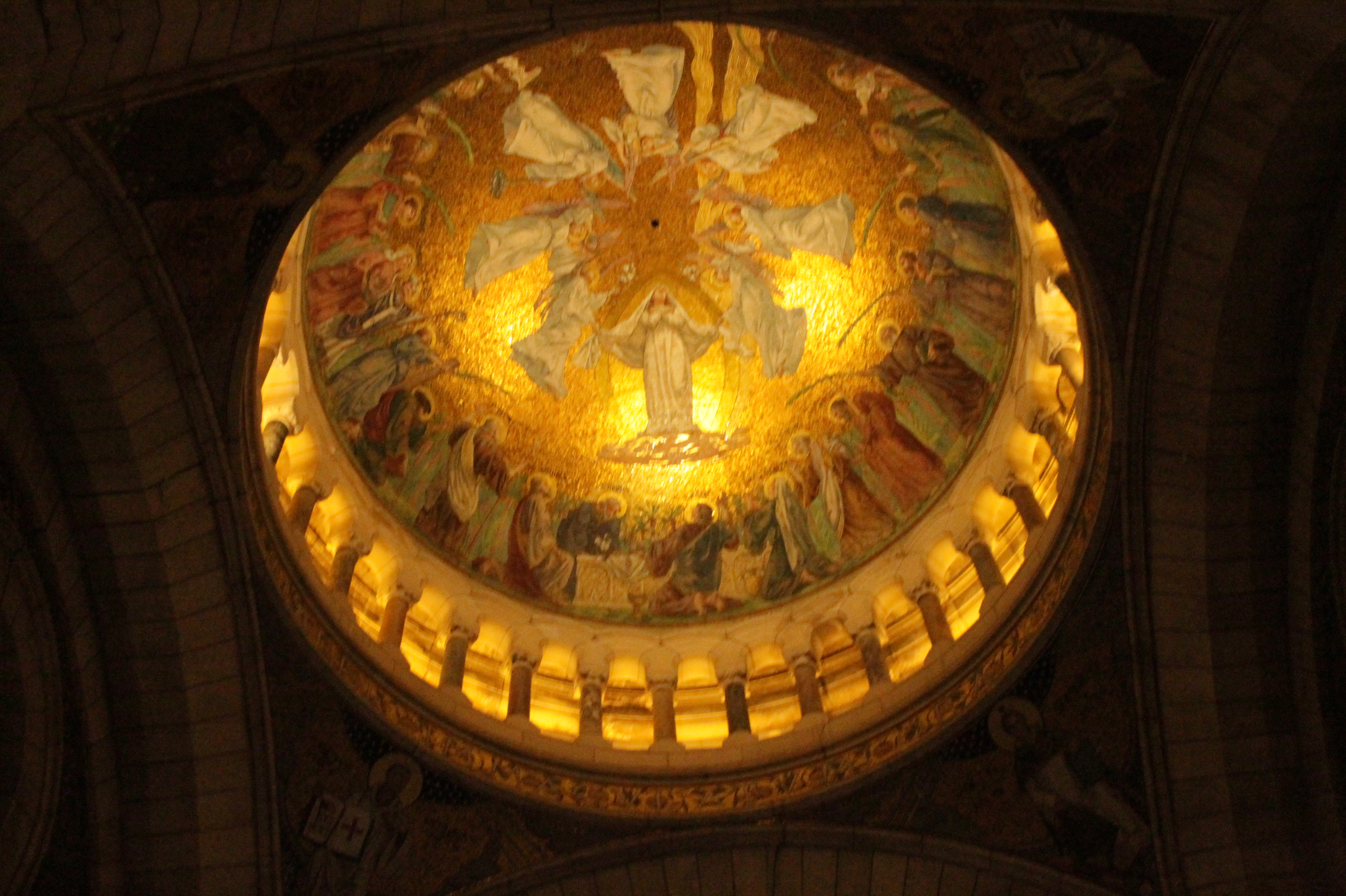 The interior of the north dome, Sacre Coeur, Paris